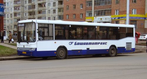 NefAZ "Bashautotrans"'s bus in Ufa, Russia.